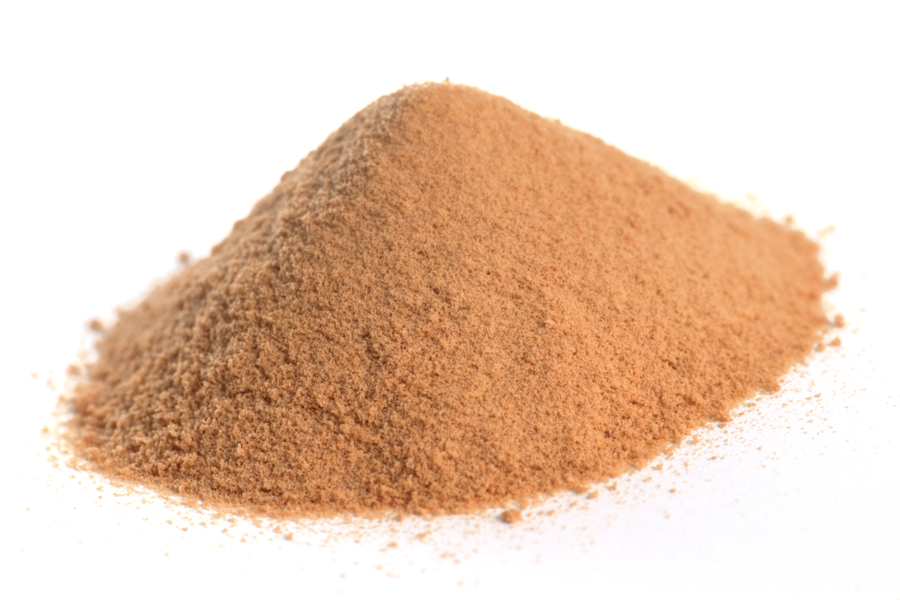 Tannin